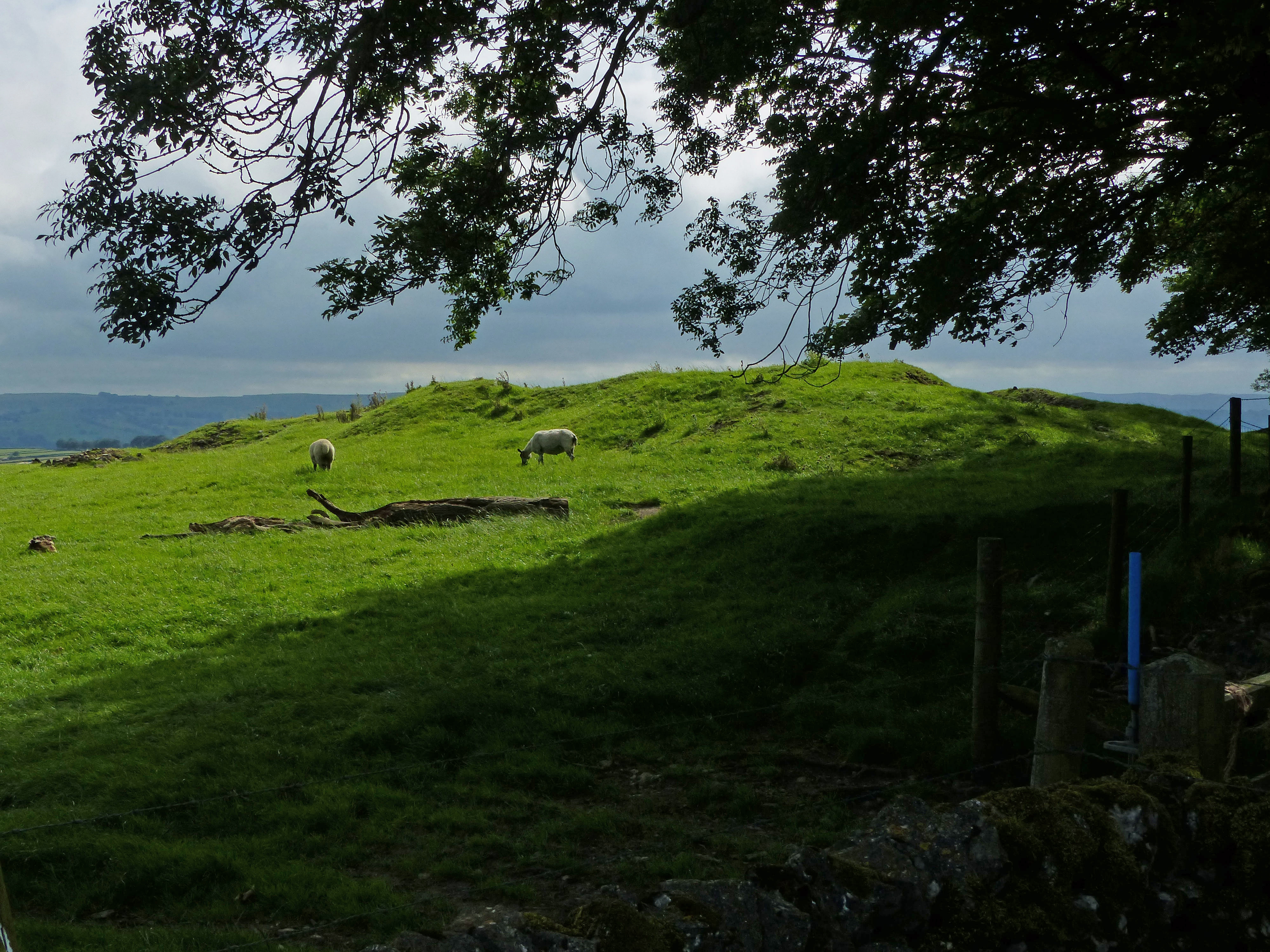 Bowl barrow and scheduled monument near Tideswell, Derbyshire.